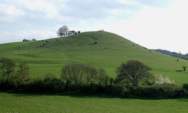 Cymbeline's Castle from Ellesborough Church Tower. On a beautiful Bank Holiday Monday (for a change !), we climbed to the top of the fine tower of 282314 which affords excellent views in all directions.To the southwest the scene is dominated by this notable tump. It is an ancient Motte & Bailey system known as Cymbeline's Castle (or Mount). Any connection with the ancient British king - whom Shakespeare wrote a play about - is I think speculative at best. However it has been suggested that the nearby Kimbles (Little & Great) are named after him, so it does at least have some plausible link back to pre-Roman times. Although Shakespeare used the name Cymbeline (for his entirely fictional tale), this 1st Century king who ruled a large area of Southern England before the Roman invasion, is more generally known historically as Cunobelinus, though he is known also by various other names such as Cynfelyn and Kymbelinus. This little mount on which his putative castle stood sits below the higher eminence of Beacon Hill, but manages not to be overshadowed by it, retaining a certain quality - perhaps due to its ancient history.